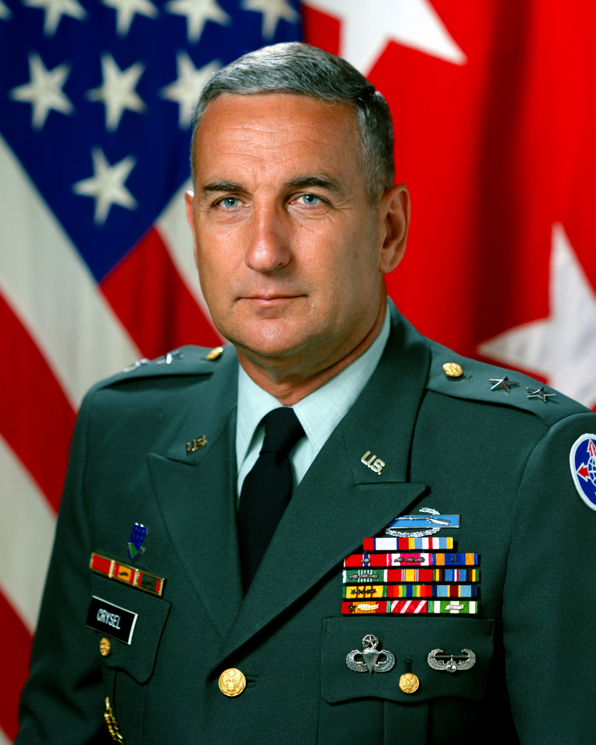 James W. Crysel (United States Army General)